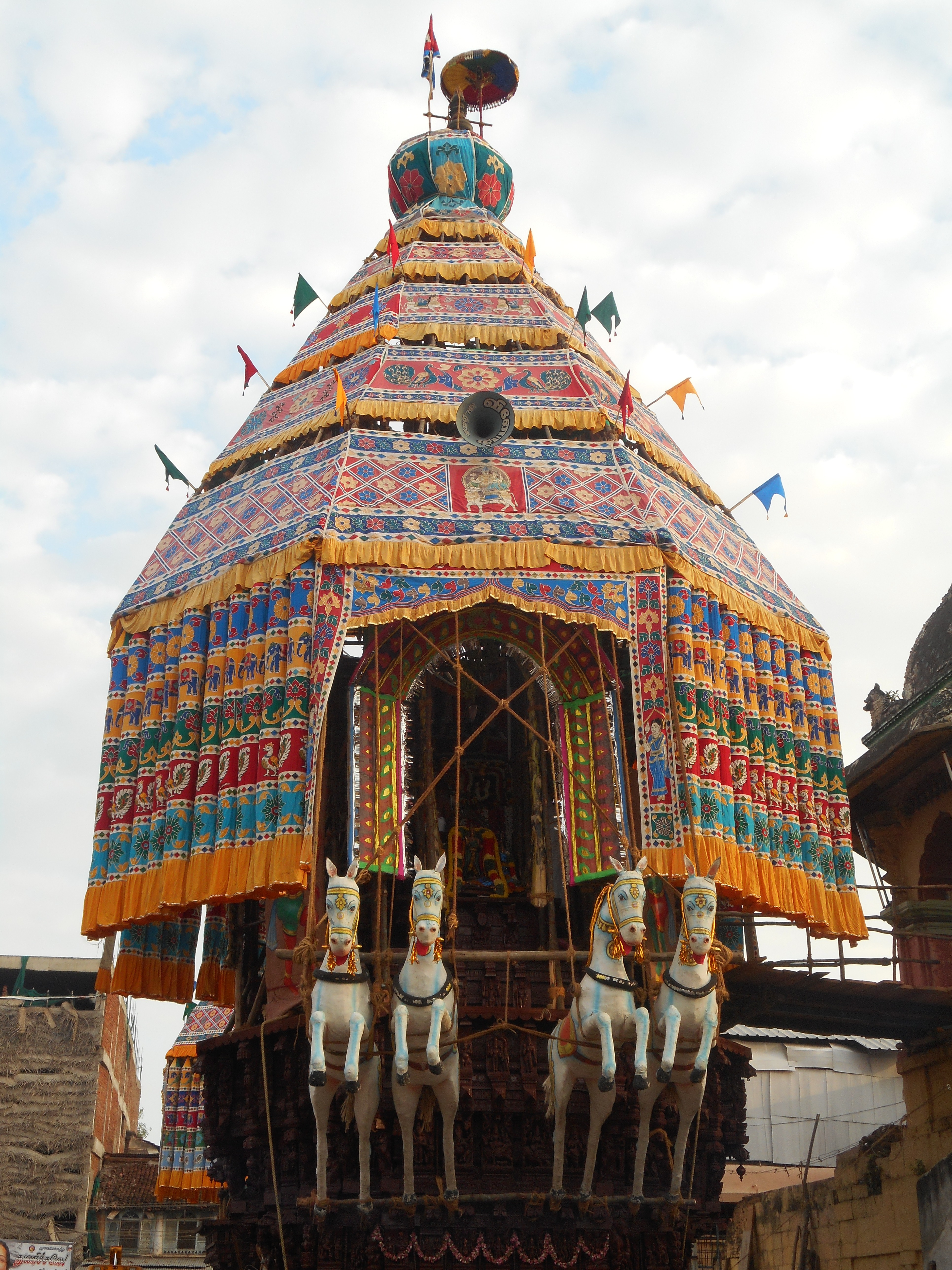 Kumbesvarar temple car கும்பகோணம் கும்பேஸ்வரர் கோயில் தேர்